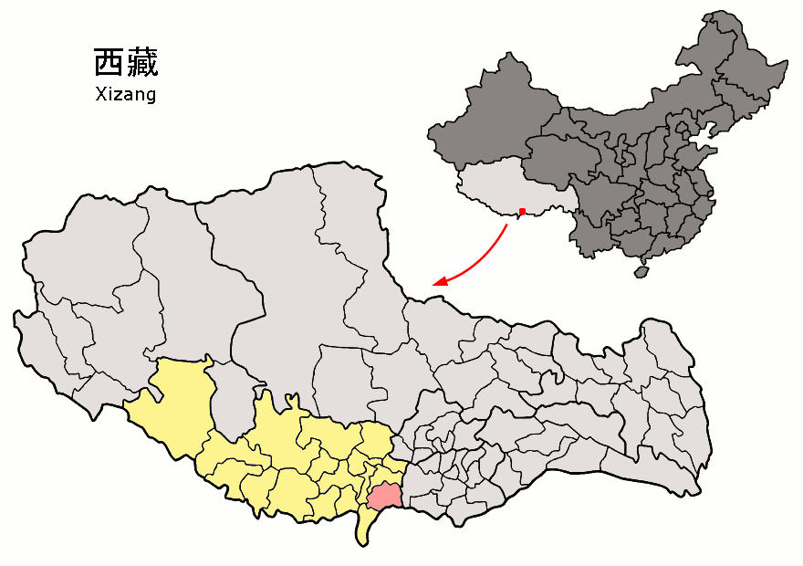 Location of Kangmar County (pink) and Xigazê Prefecture (yellow) within Tibet (Xizang) autonomous region of China